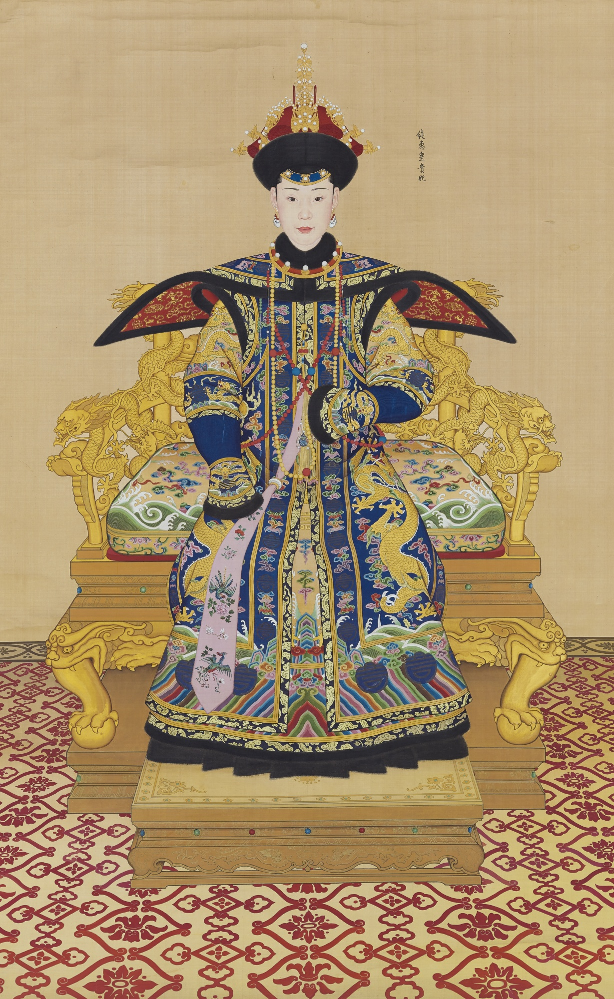 The Official Imperial Portrait of Qing Dynasty's Imperial Consorts